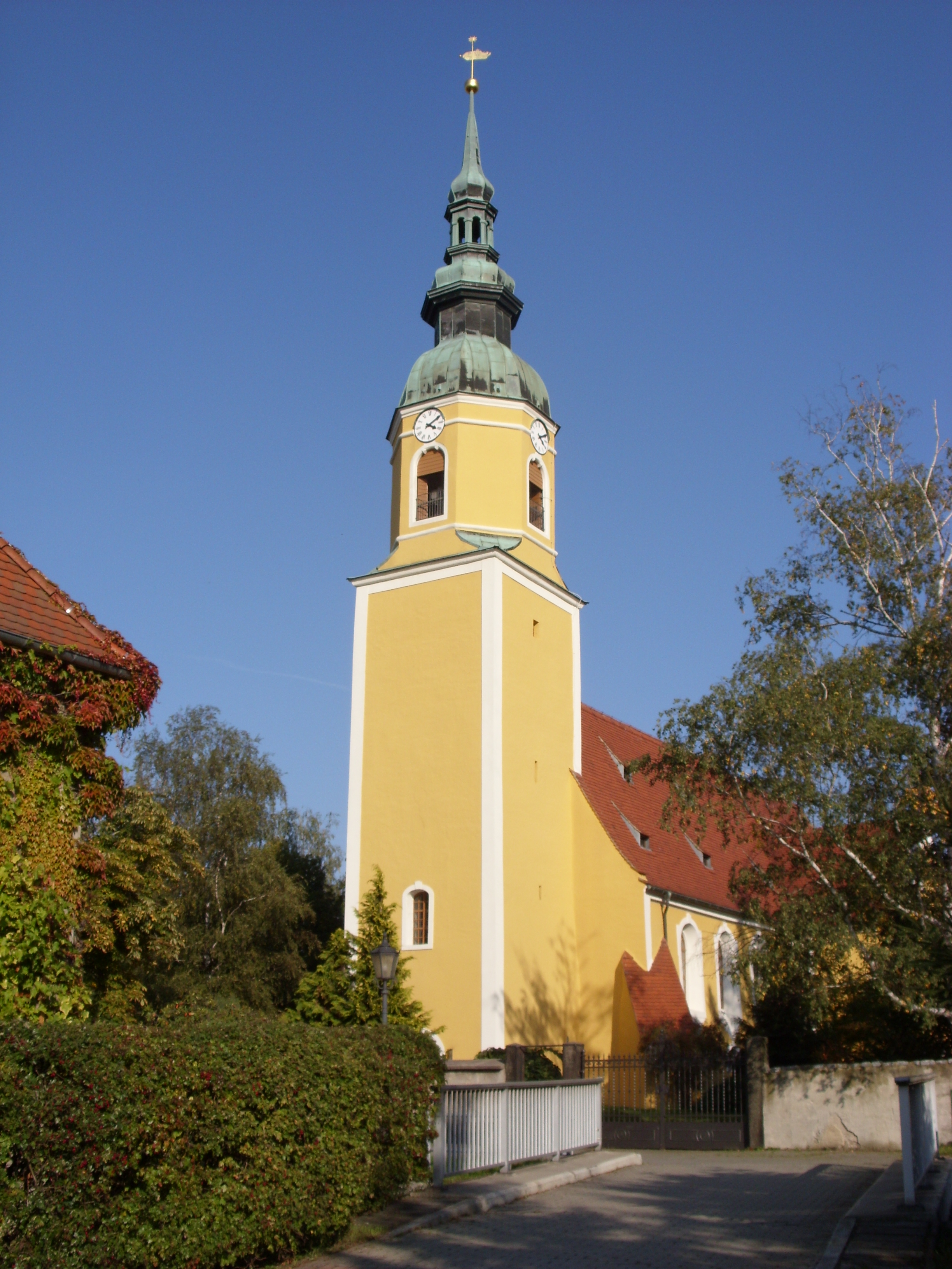 Protestant church in Königswartha, Bautzen district.